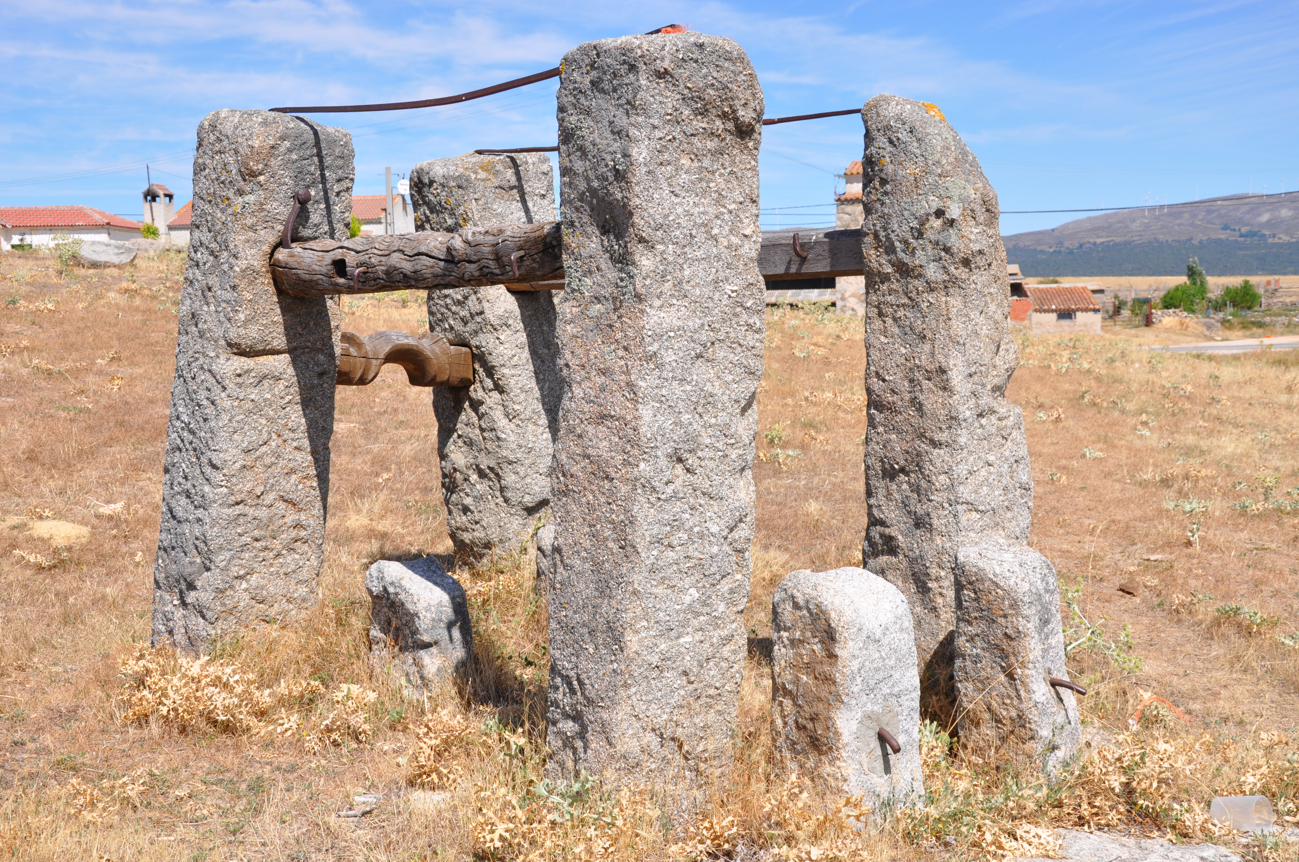 Stocks for animals, Blacha, province of Ávila, Spain.